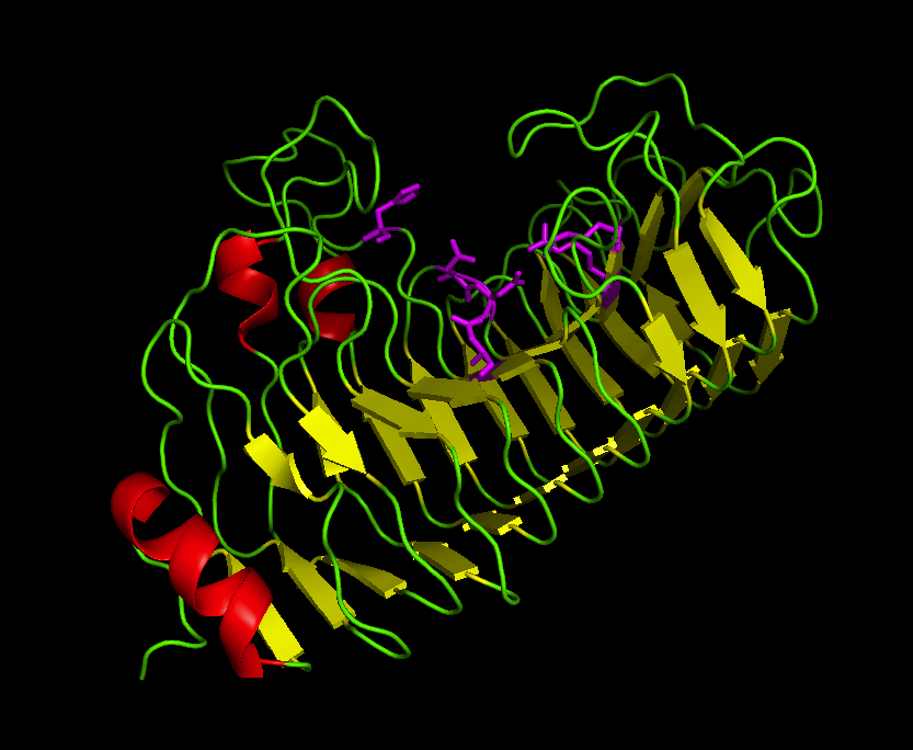 Polygalacturonase from Fusarium moniliforme with active site